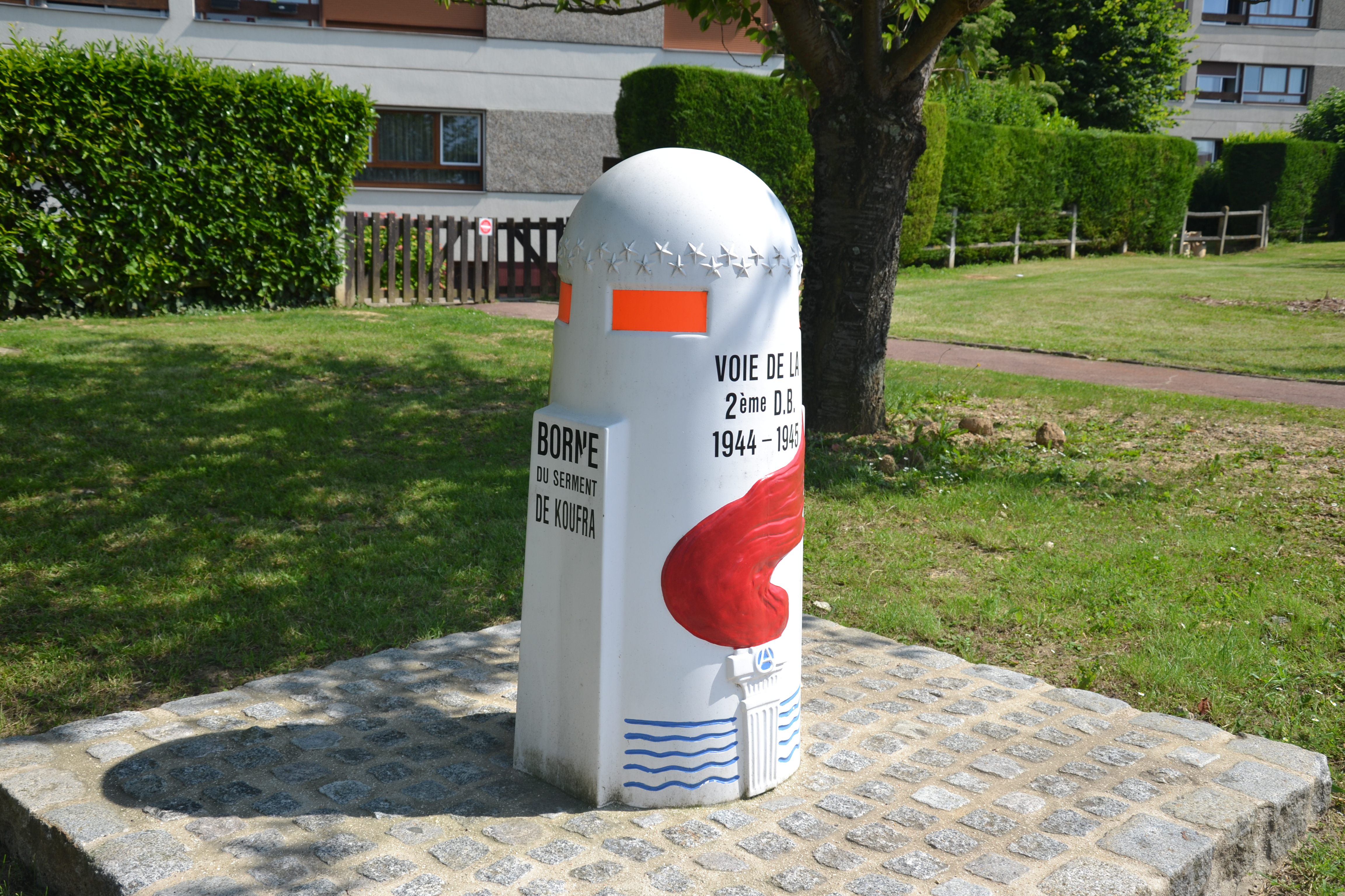 Milestone of the Liberty Road, on the way to the second DB , after landing on Utah Beach